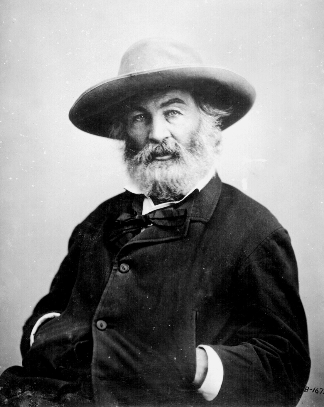 Walt Whitman, poet; half-length, seated, wearing hat.